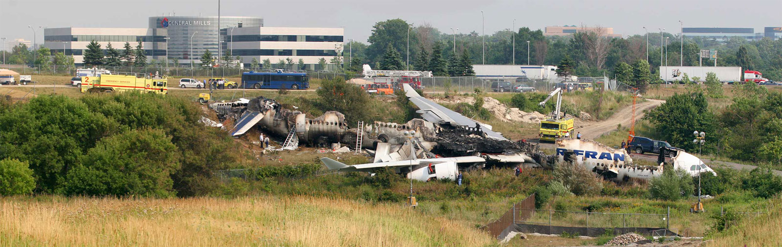 Air France Airbus A340-300, flight number 358, one day after the crash